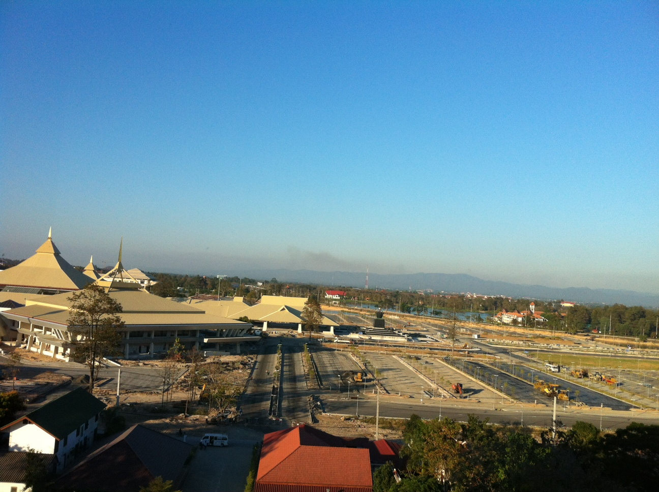 The Chiang Mai international convention center while it was being constructed: January 2012